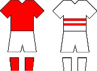 Al-Ahly SC vs Zamalek SC